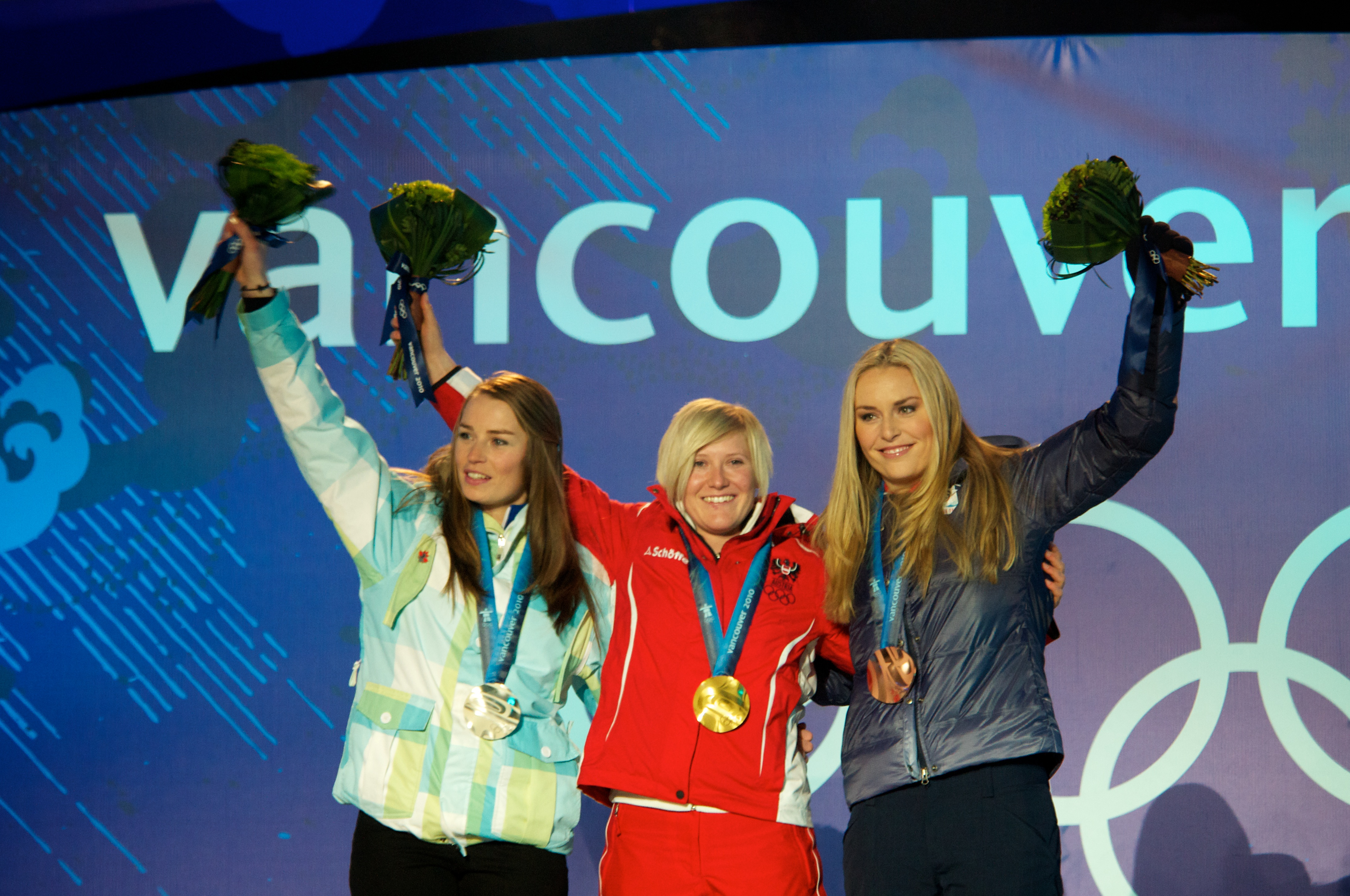 The Medal Ceremony at Whistler on Day 9 of the Vancouver 2010 Winter Olympics. From left to right: Tina Maze of Slovenia (silver), Andrea Fischbacher of Austria (gold) and Lindsey Vonn of the United States (bronze) with the medals they earned in women's Super-G in alpine skiing.